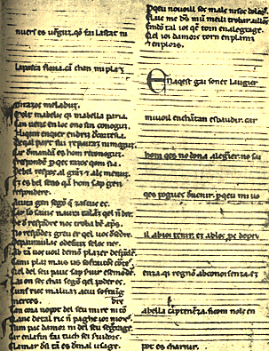 From troubadour manuscript G, originally from Lombardy or Venetia, late 13th century. Now R 71 sup. in the Biblioteca Ambrosiana, Milan. This page contains an unascribed poem of Peire Guilhem de Luserna and staff lines on which no music was ever written.